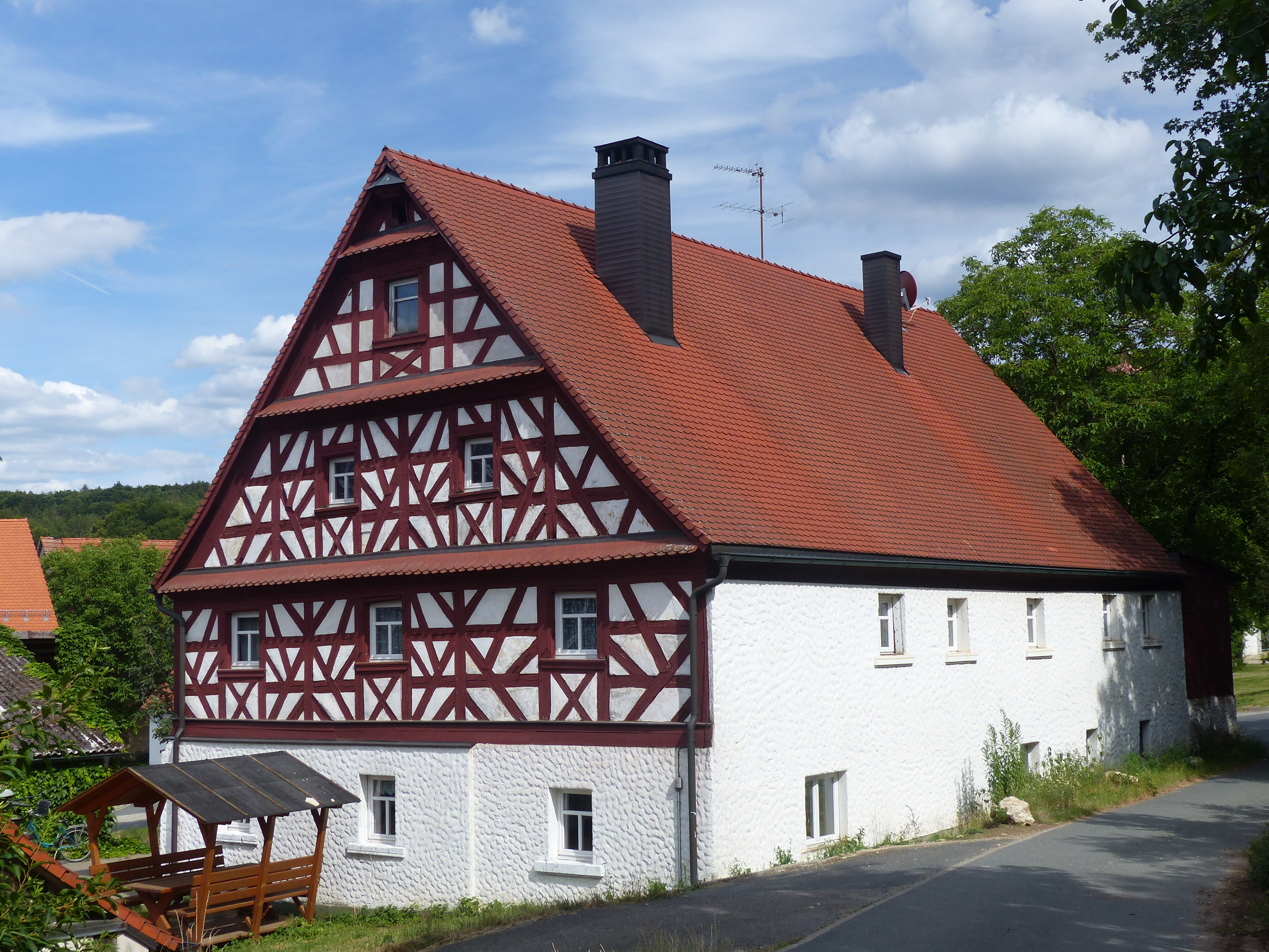 A byre-dwelling house in the village Seidmar, a district of the municipality of Leutenbach.